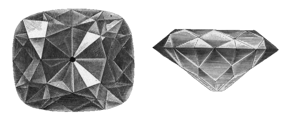 Star of the South diamond